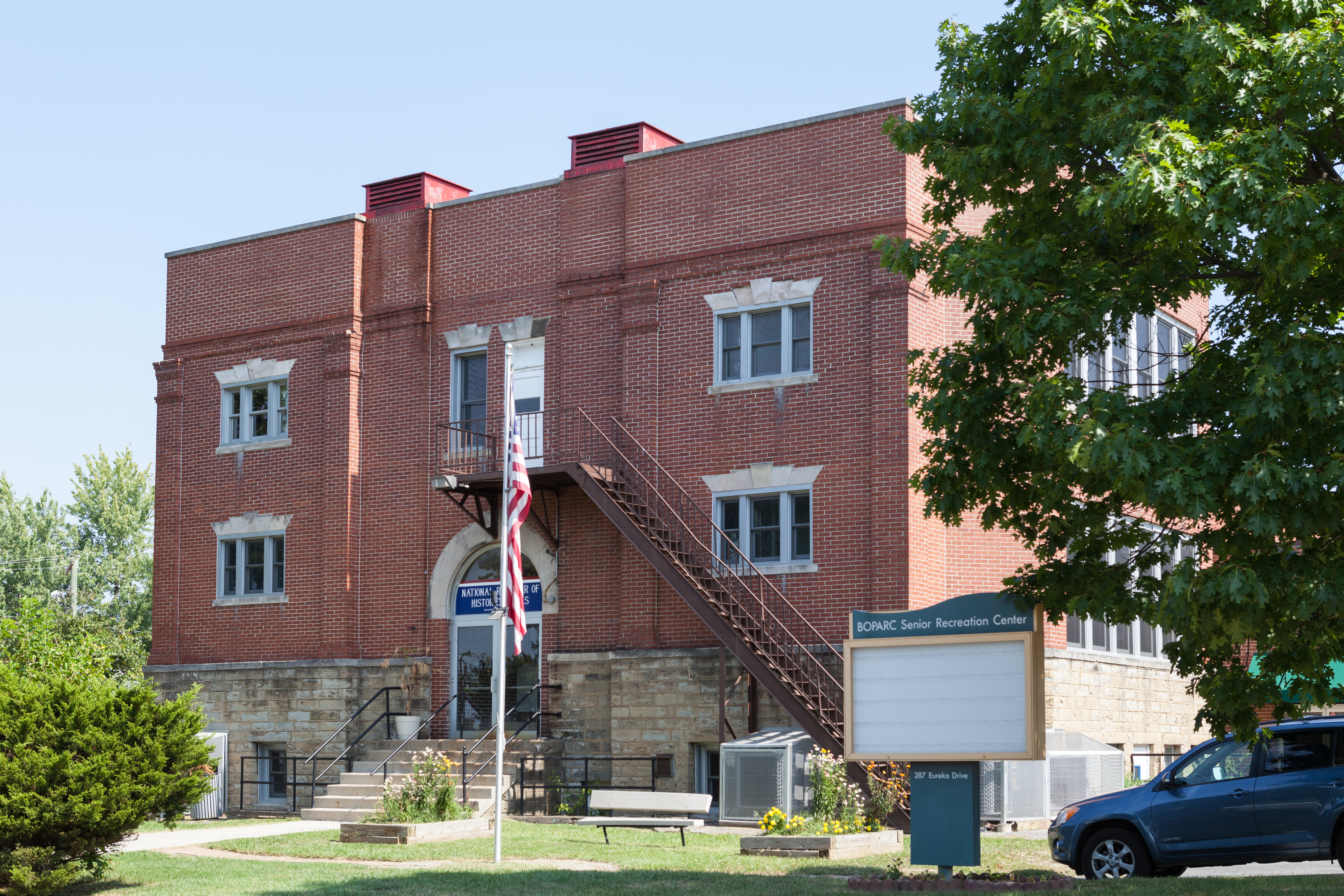 Fourth Ward School in Morgantown, West Virginia. A 1910 school building, now used as a senior recreation center. Looking north.